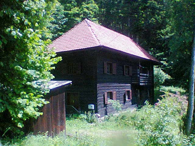 prince Windisch-Graetz 's ex hounting hut